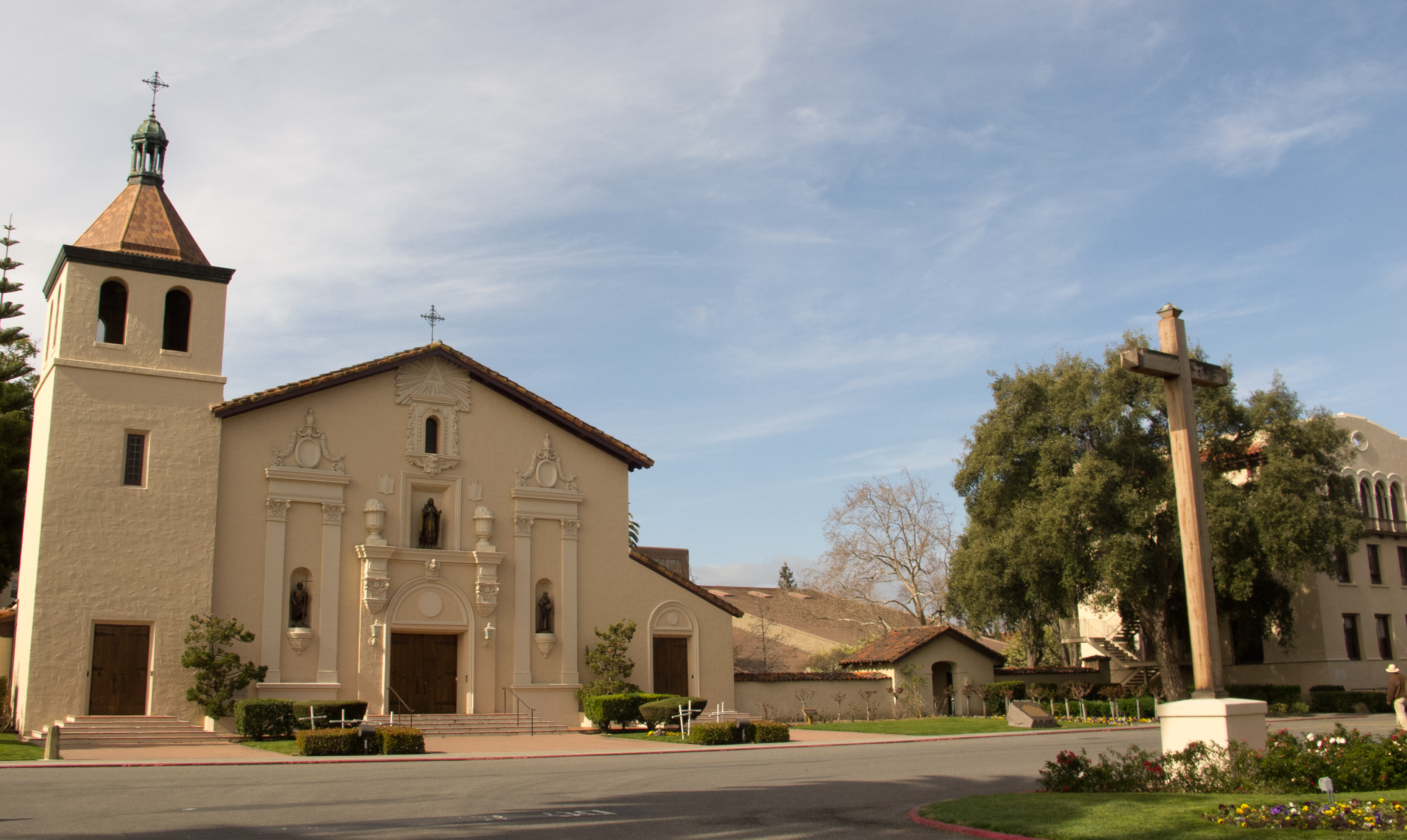 Santa Clara University - Santa Clara University's Mission Church.